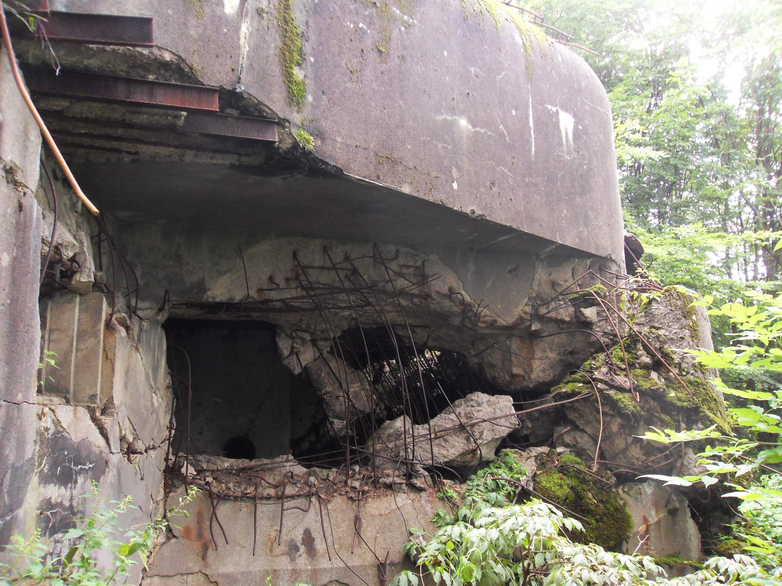 T-S 52b Na skále infantry casemate, Trutnov District, Czech Republic